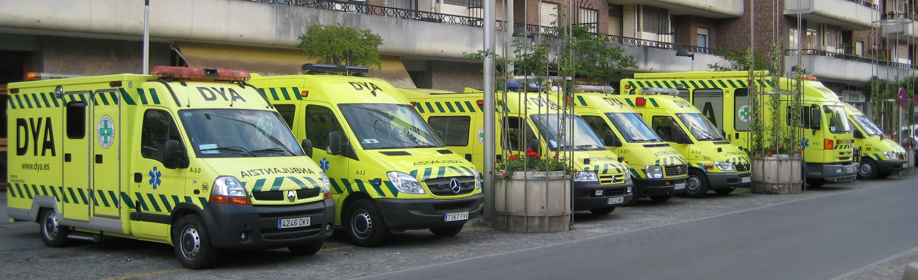 DYA Ambulances parked at Las Arenas Station Plaza (nicknamed Chess Plaza) / Gobelaurre Street. Getxo.